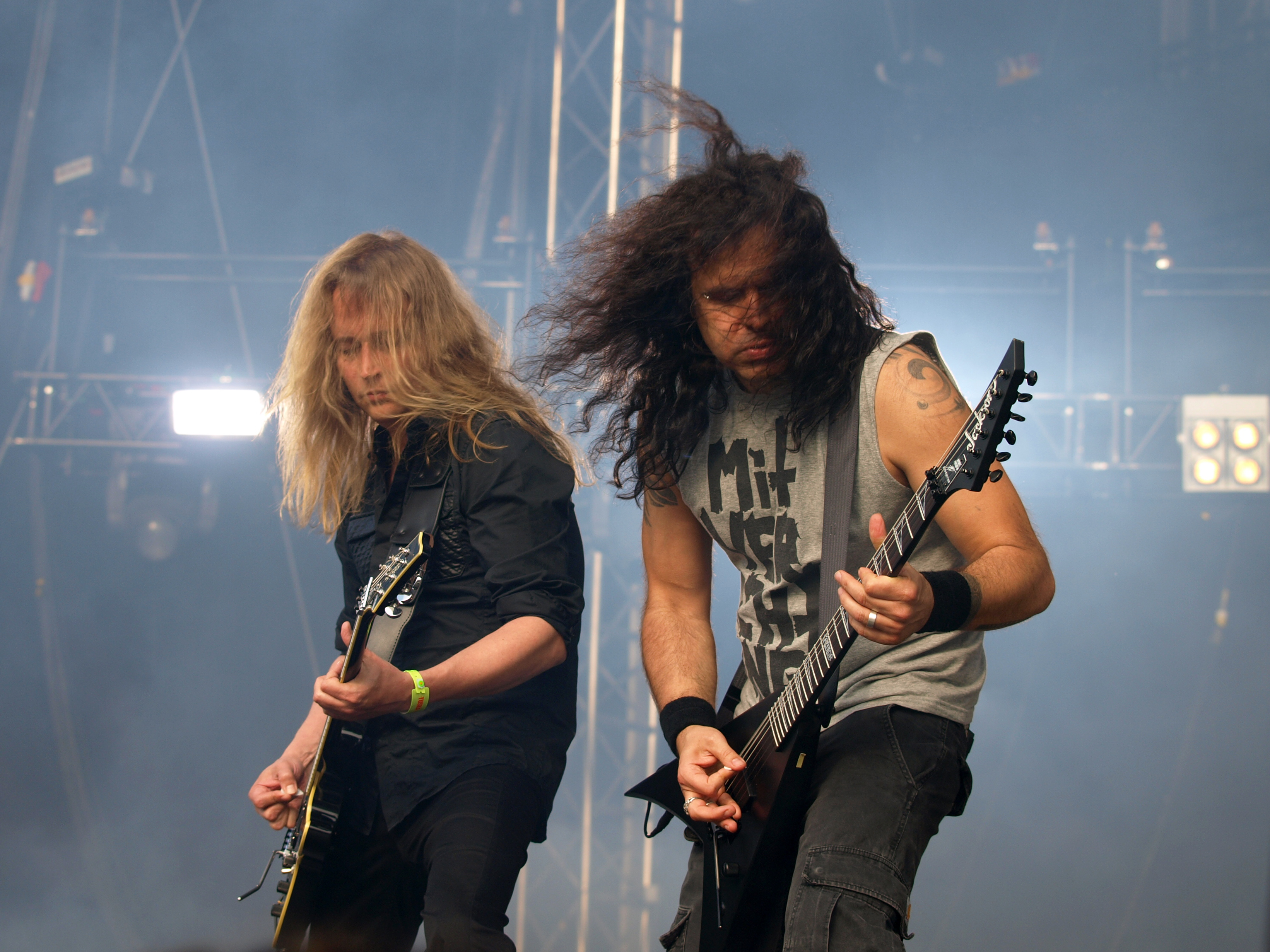 German thrash metal band Kreator live at Tuska Open Air 2013